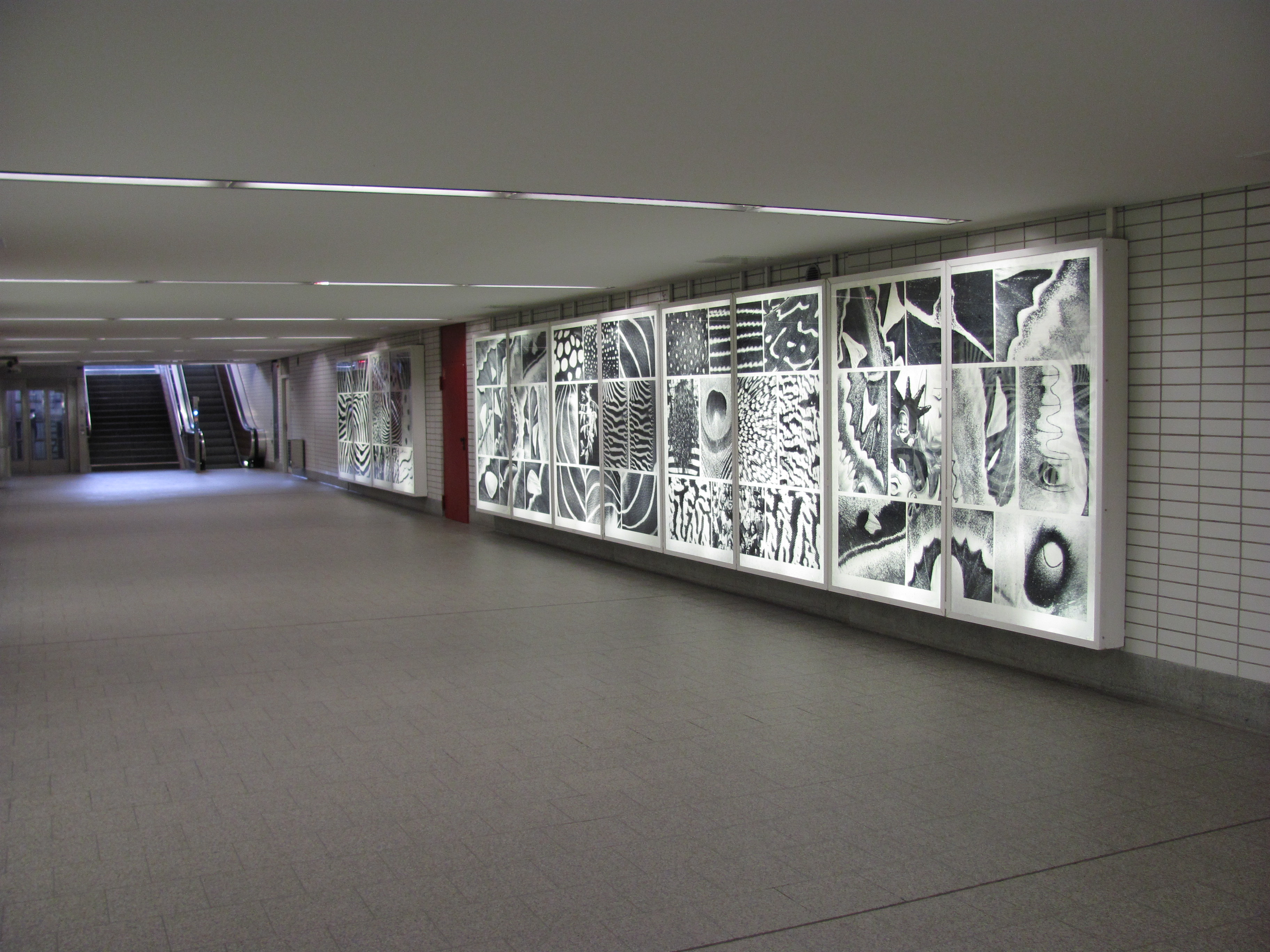 U-Bahn station Hagenbecks Tierpark in Hamburg, Germany